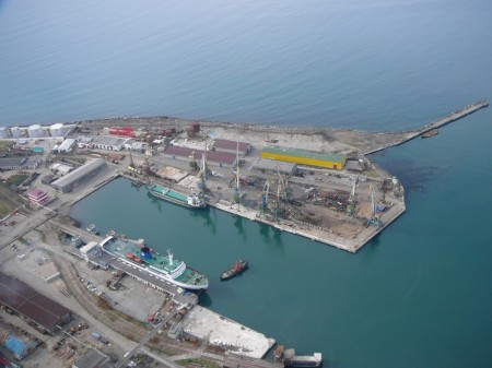 Порт Холмск